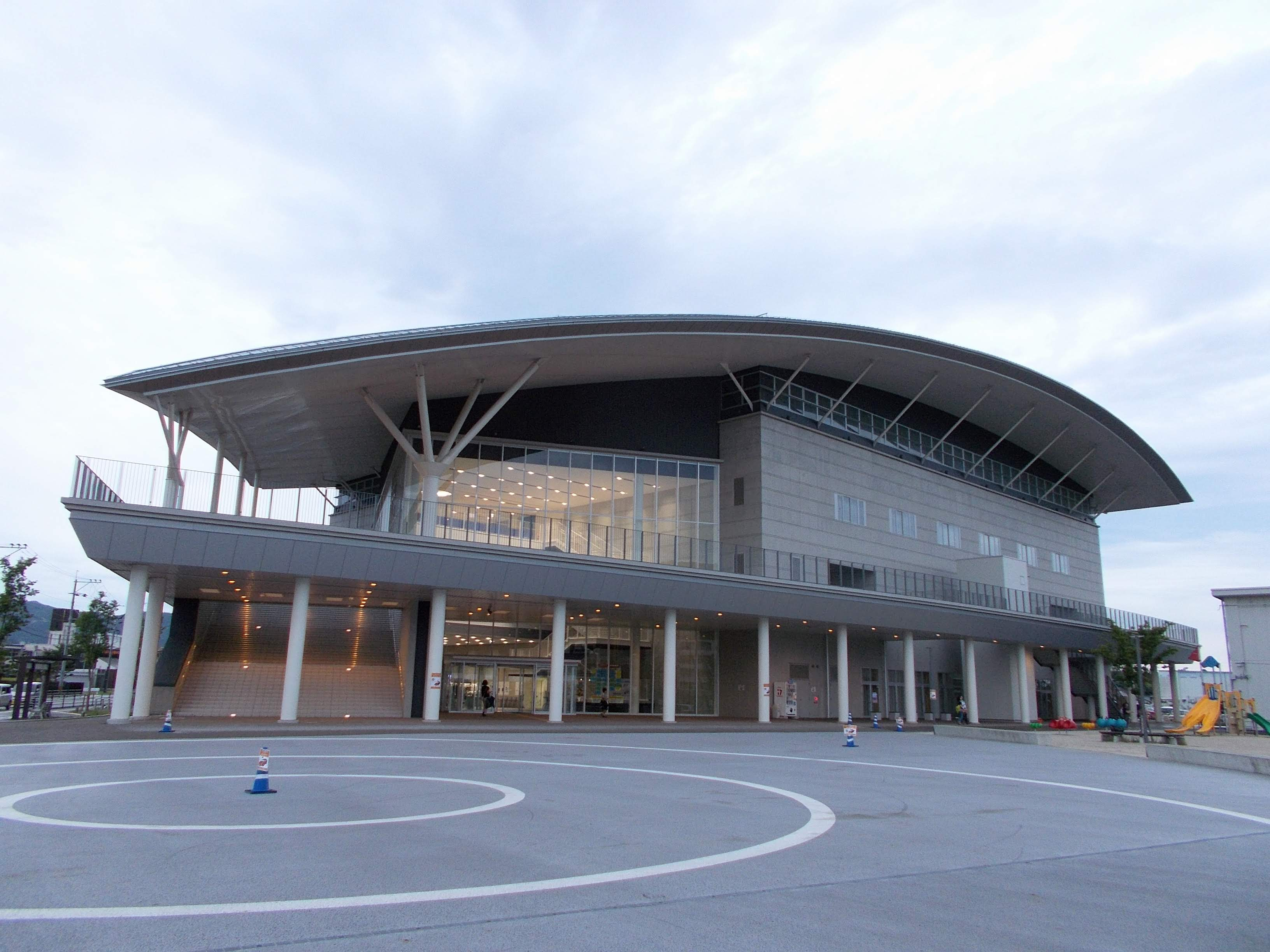 Dazaifu City General Gymnasium, also known as the Tobiume Arena, is located in Dazaifu, Fukuoka, Japan